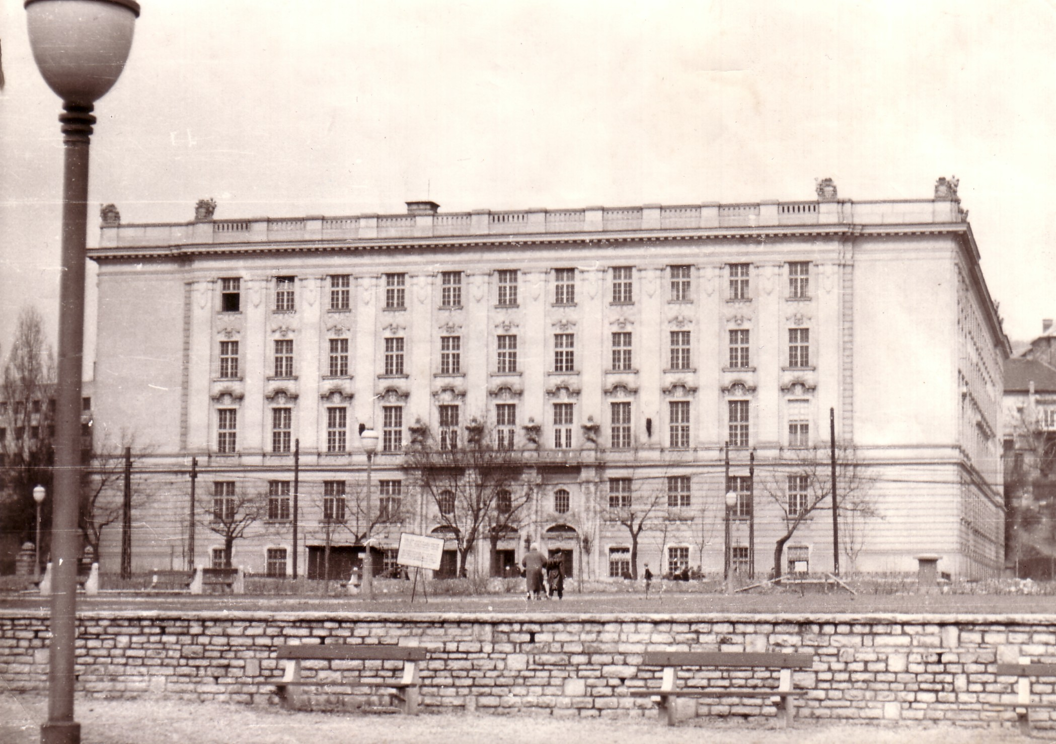 The high school “Szent Imre gimnázium”, Budapest, 11th district